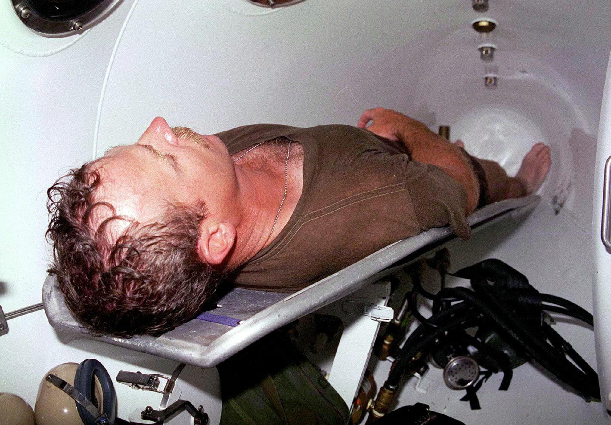 Queensland, Australia (Mar. 1, 1997) -- A U.S. Navy Sailor demonstrates the available space inside a Transportable Recompression Chamber System (TRCS). These devices are used on divers who are brought to the surface too quickly for the body to properly decompress. The chamber recompresses the diver to a safe depth, and then slowly recompresses to normal pressure. U.S. Navy photo by Photographer's Mate 2nd Class H. Wolfgang Porter. (RELEASED)